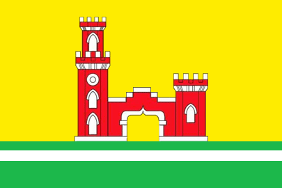 Flag of Ramon, Voronezh Region, Russia